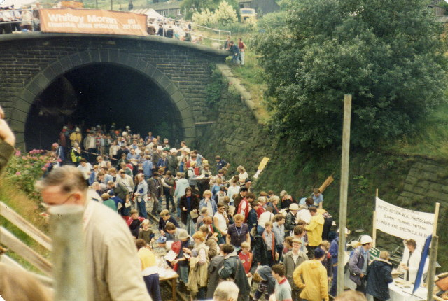 Summit Tunnel, North Portal